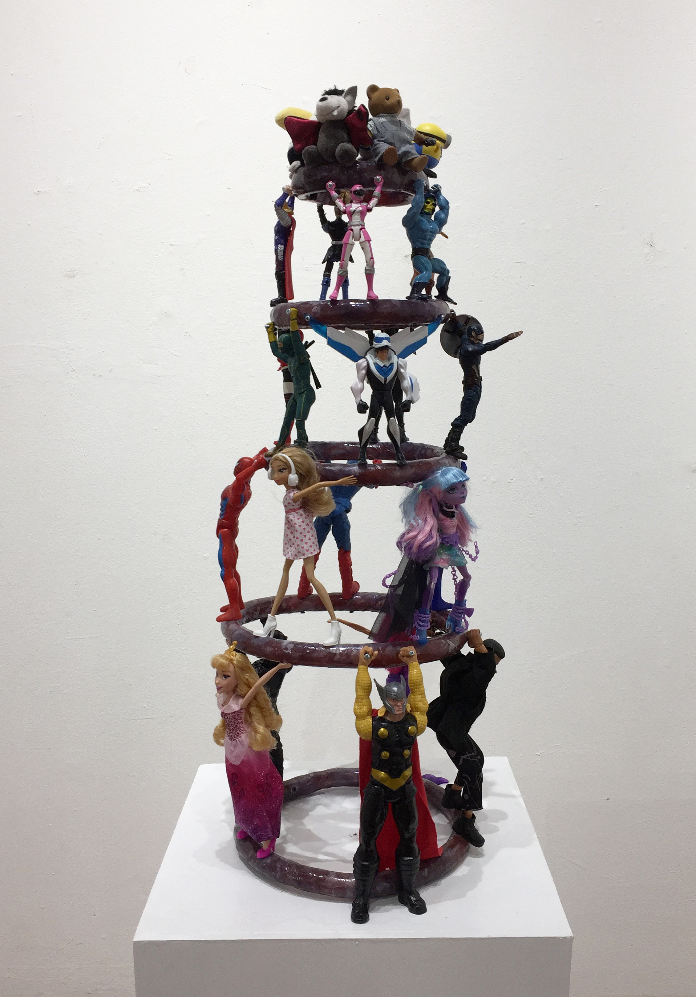 Installation object from the artist Harro Schmidt ...